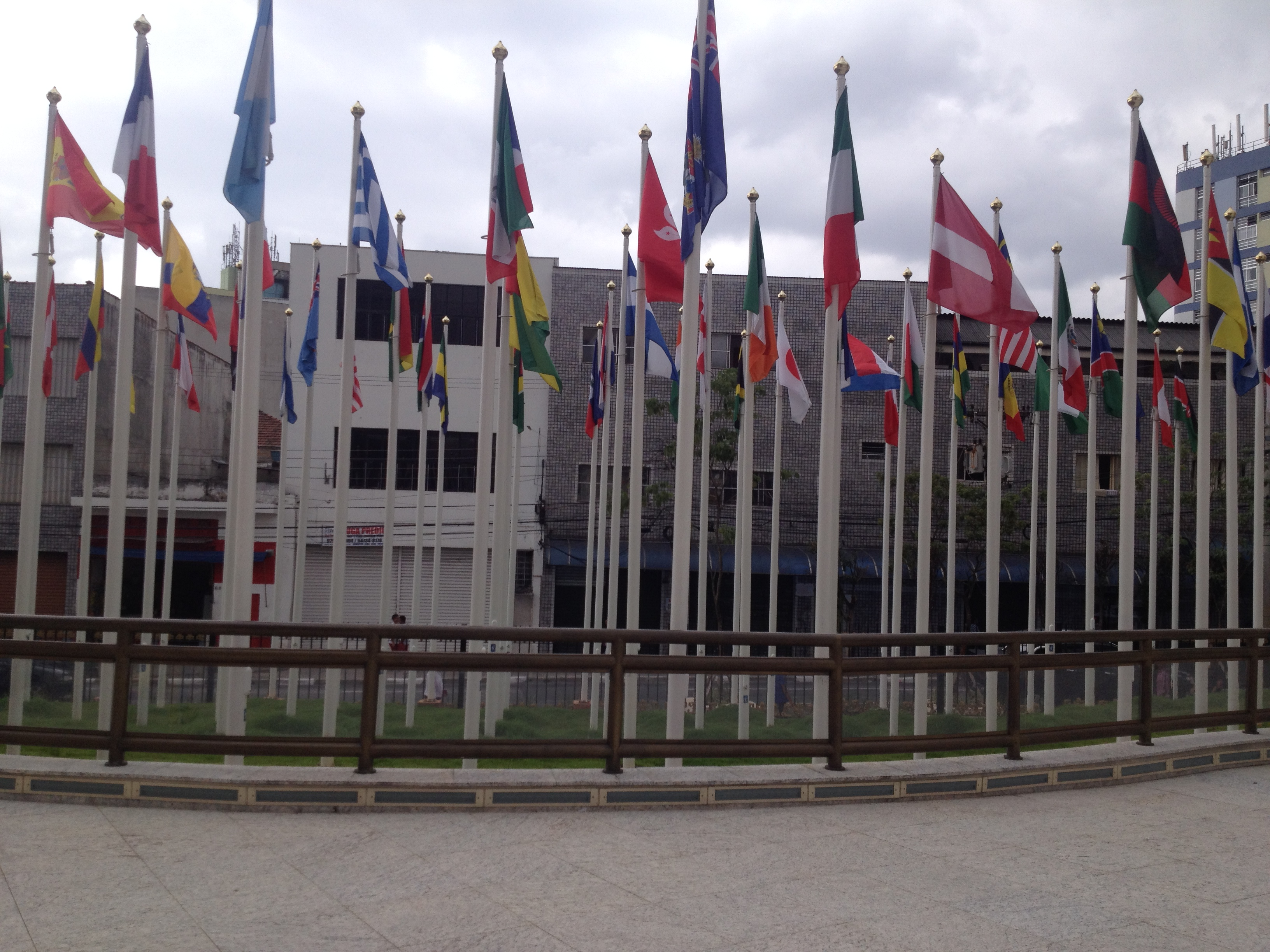 Salomon Temple in São Paulo, Brazil.